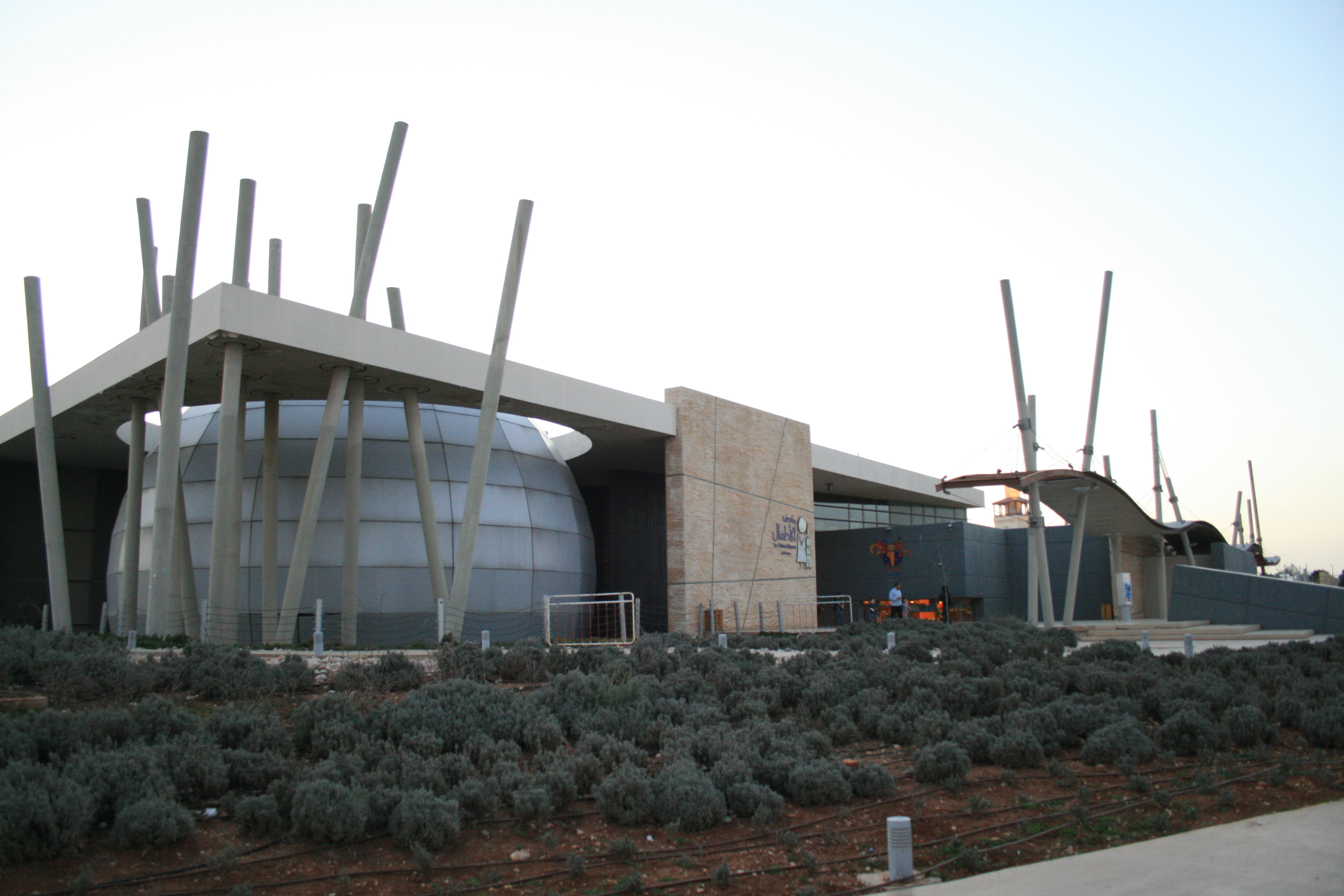 Children Museum at Al Hussein Park, Amman, Jordan